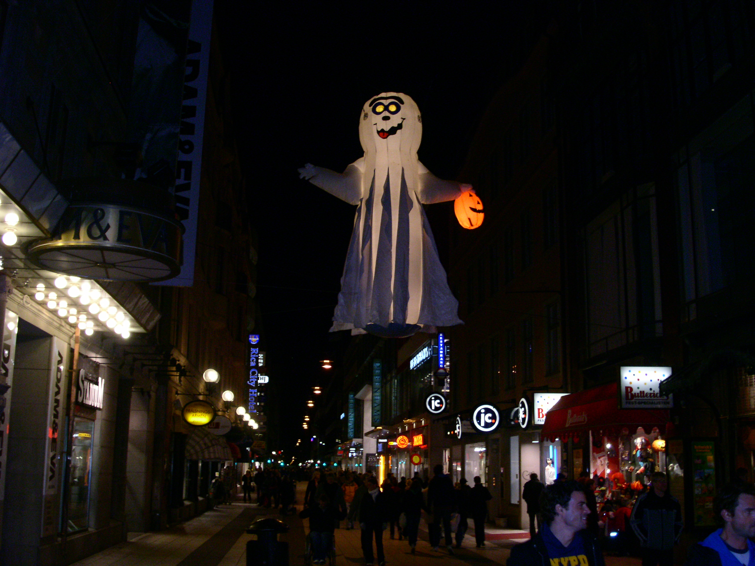 Ghost